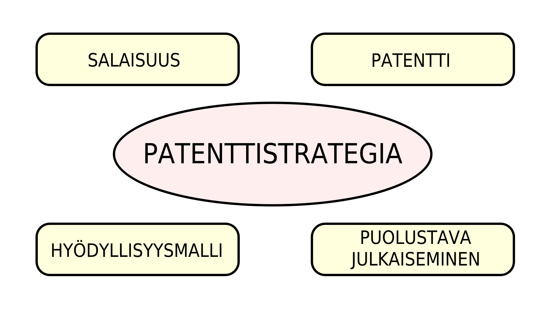 The inventor needs to solve a basic problem: What to do about the invention? The choice is narrow: Secrecy Patent Utility model Defensive publication